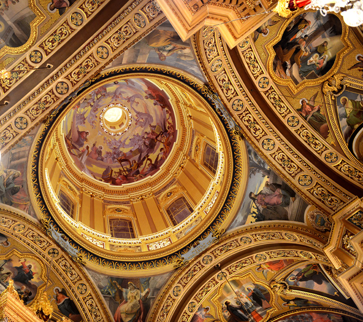 The Xaghara parish church was established in 1688 by Bishop Cocco-Palmeri and is dedicated to the Nativity of the Virgin Mary. The first stone of the church was laid in 1815 however it is unclear when the works were finished. The Xaghara parish church was consecrated in 1878 and was raised to Archipresbyteral status 15 years later on March 1893. The beautiful church was given the title of a Basilica in 1967 and should be on your list of places to visit during your visit to Gozo. The whole church is covered with beautiful marble and a fantastic statue of the young Virgin Mary, brought all the way from Marseilles in 1878.